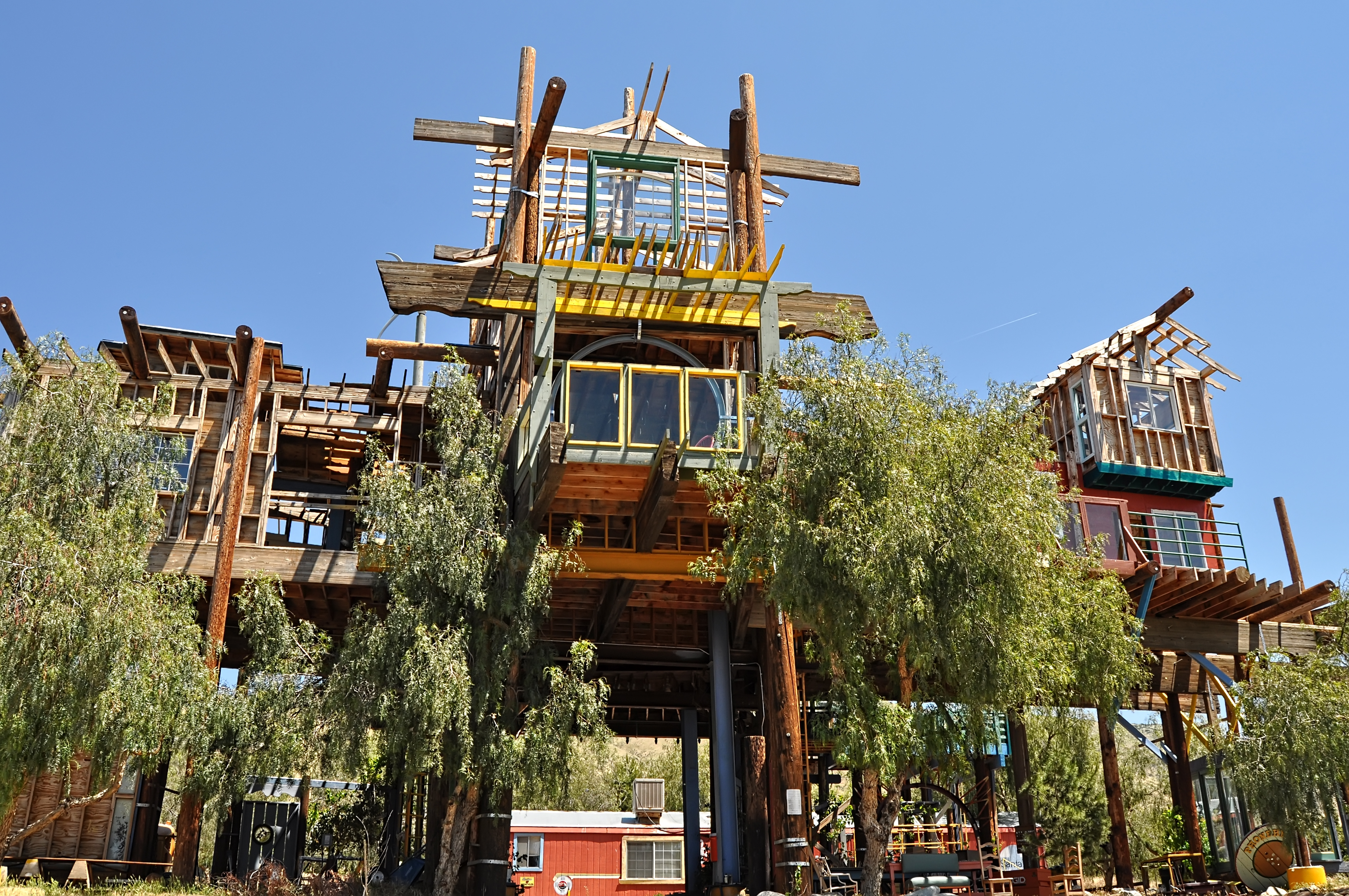 The county demanded a halt to work before Tower 5 could be completed, or even roofed.